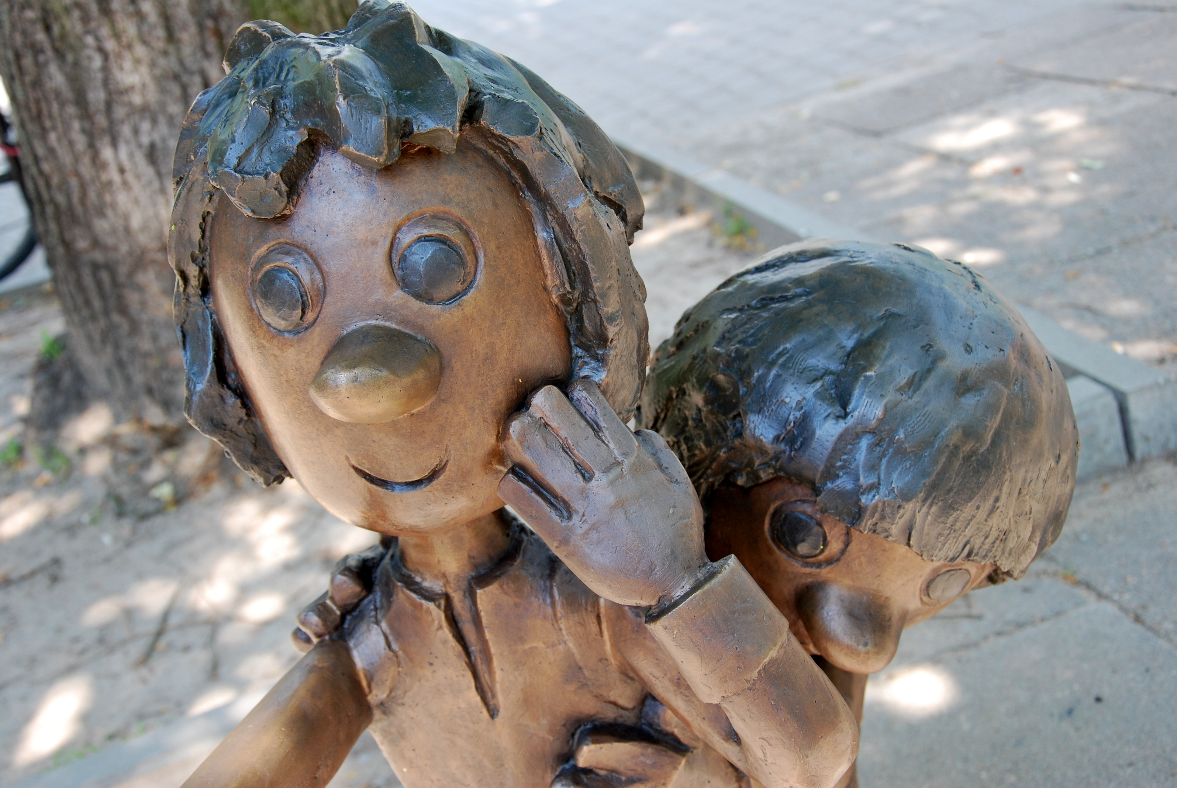 Maurycy and Hawranek sculpture in Łódź